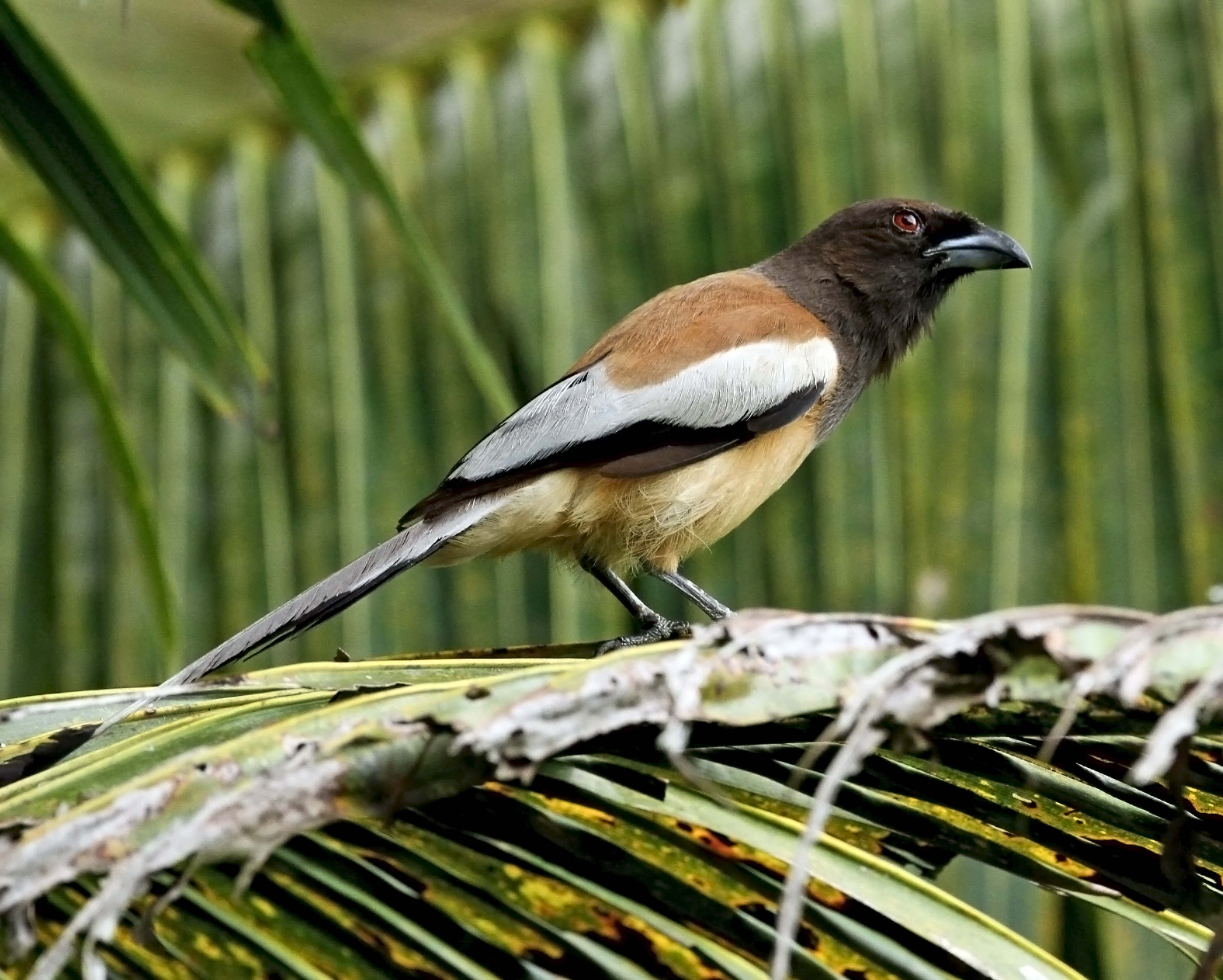 A Rufous Treepie in Kerala, India.